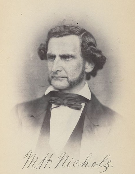 Matthias H. Nichols, congressman from Lima, Ohio.